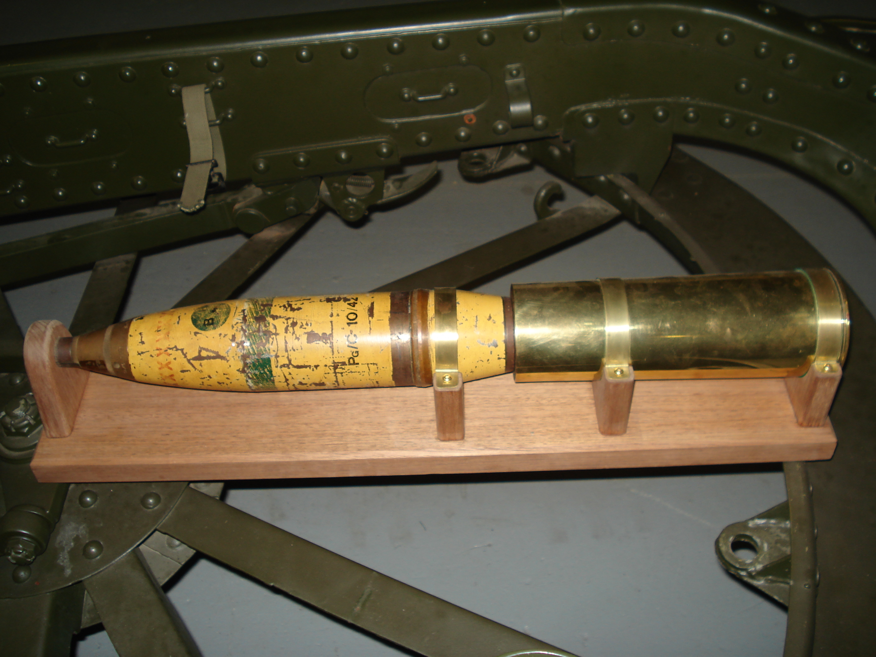 25 pounder ammunition at Canadian Military Heritage Museum in Brantford, Ontario